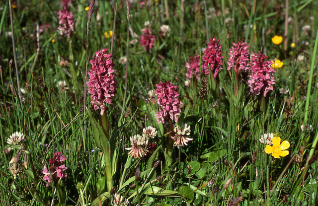 Early Marsh Orchid (Dactylorhiza incarnata) Growing in the Ainsdale local nature reserve